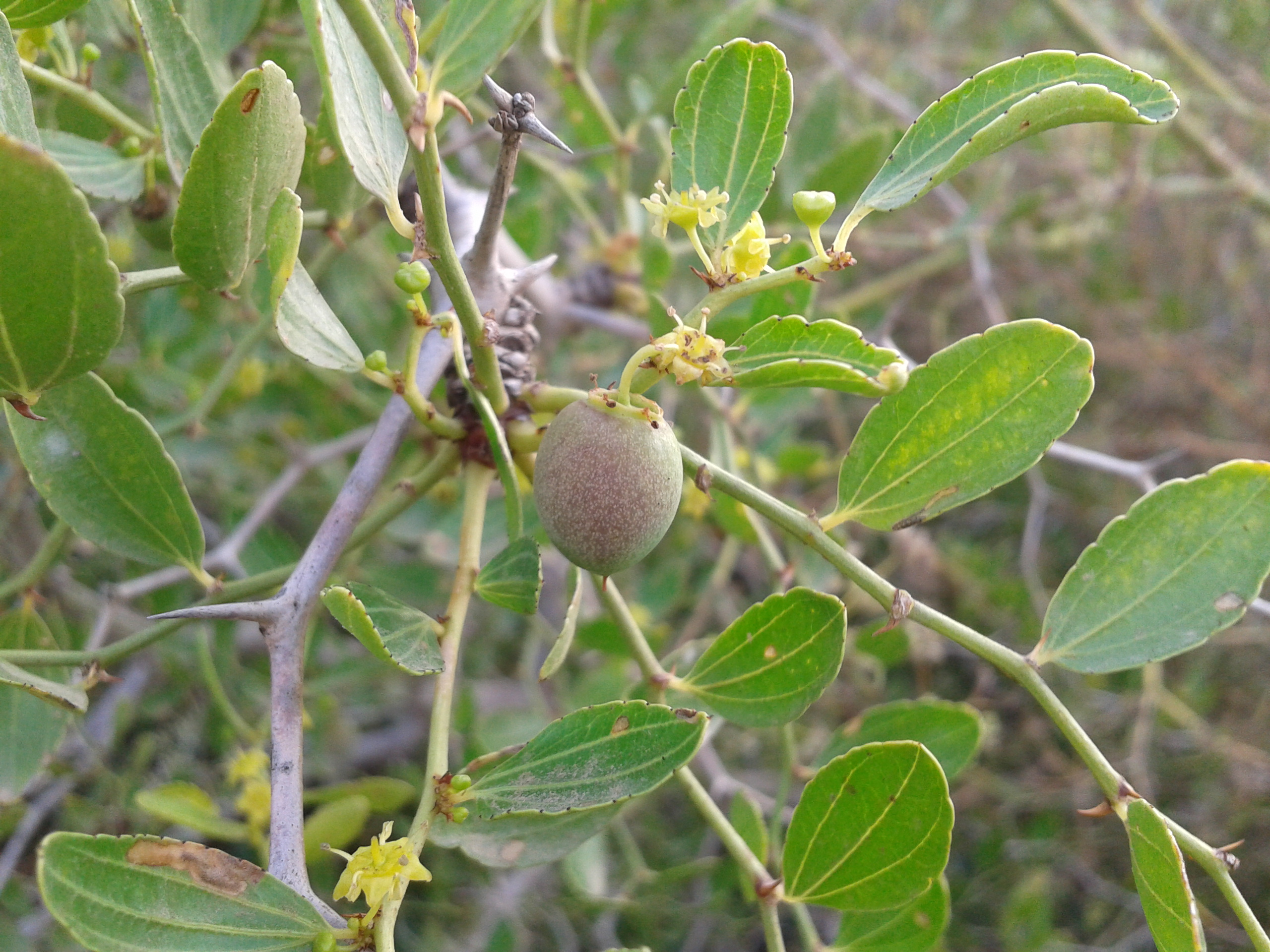 Ziziphus lotus in september in Cartagena (Spain).